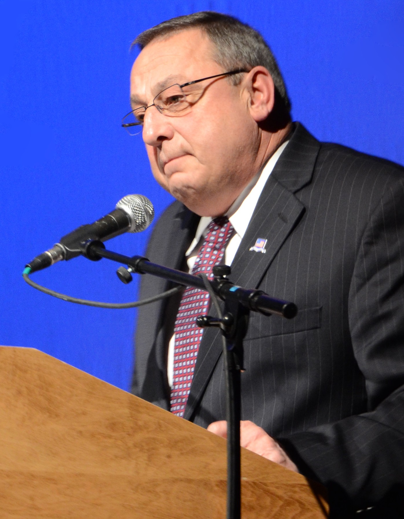 A photo I took at an event honoring the Maine National Guard at the Collins Center at the University of Maine on 1/7/11.